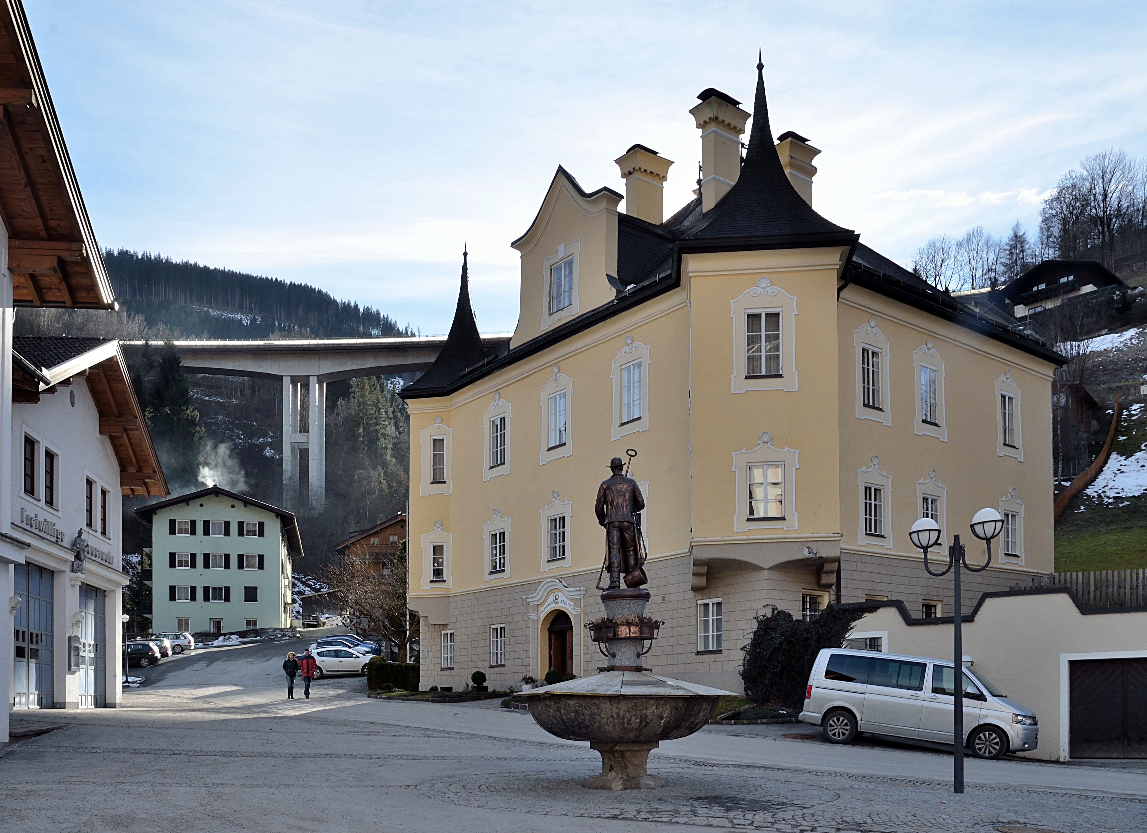 Municipal office of Lend, Salzburg, former Verwesschloss, administrative building for the owners of the mines in the Gastein valley. In the middle of the square a fountain. to the left the volunteer fire brigade.